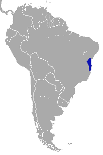 Coastal Black-handed Titi (Callicebus melanochir) range